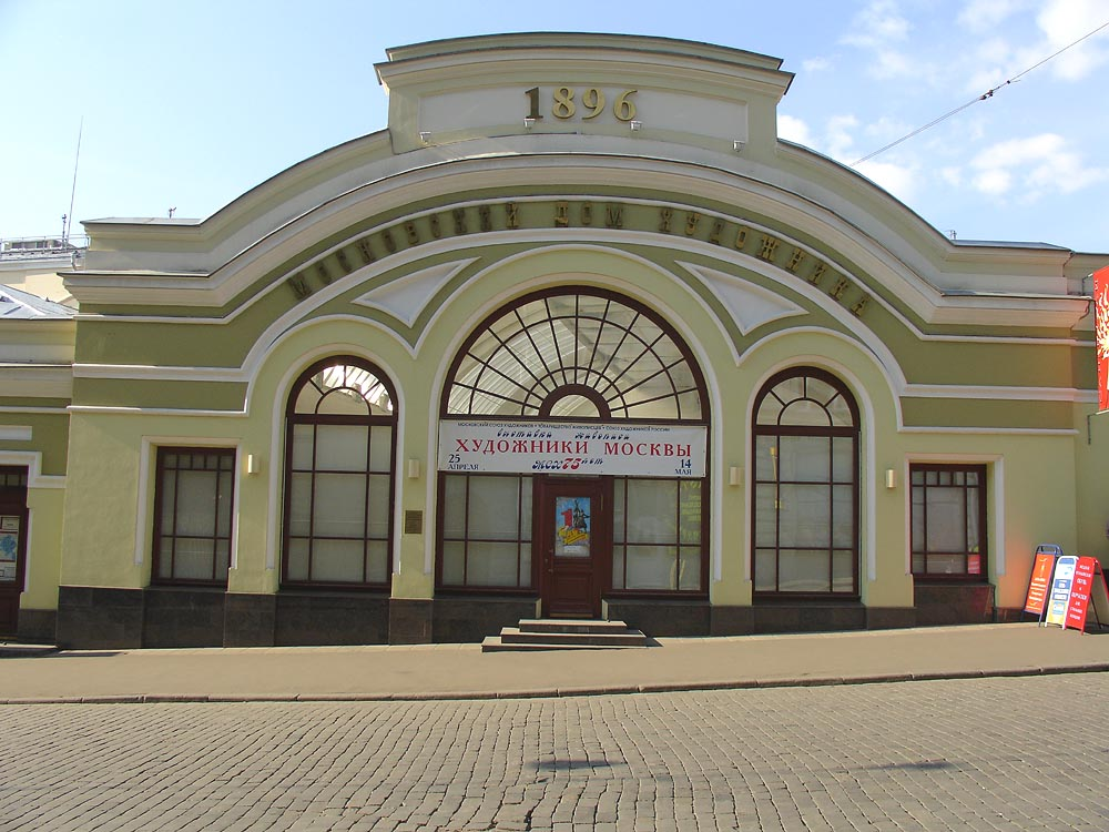 9, Kuznetky Most Street, Moscow - exhibition hall of Moscow Artists' Union